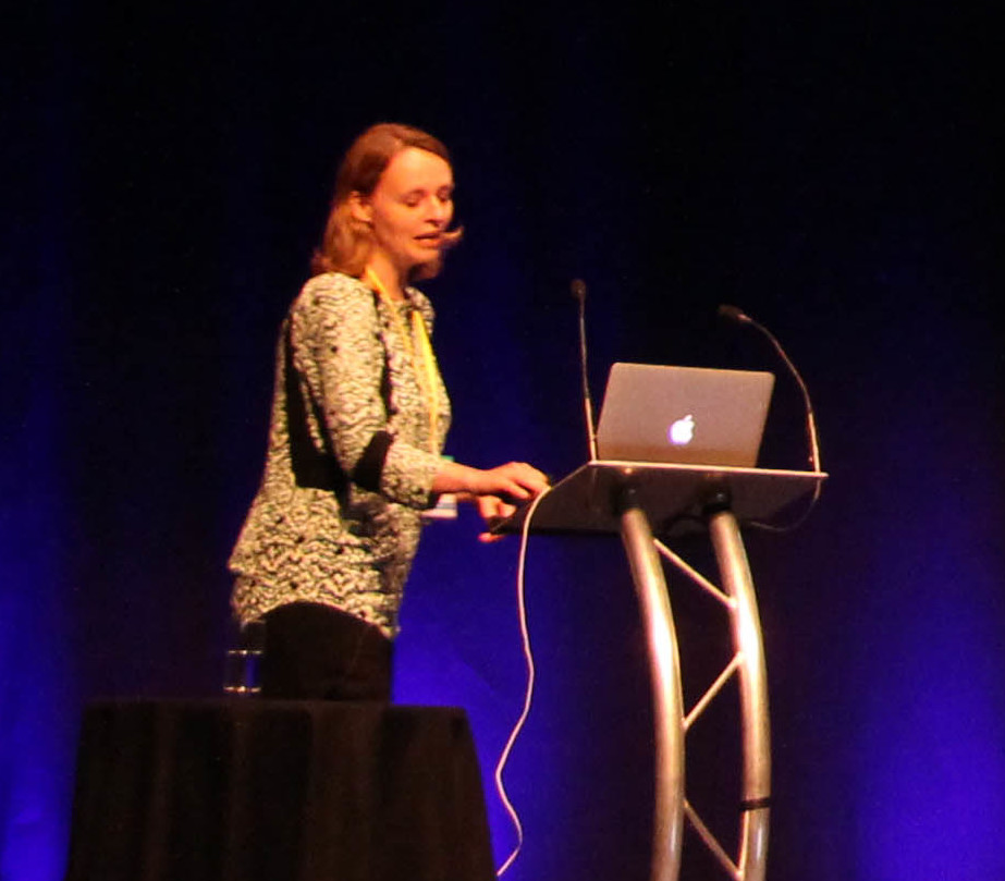 Jo Dunkley delivers plenary lecture